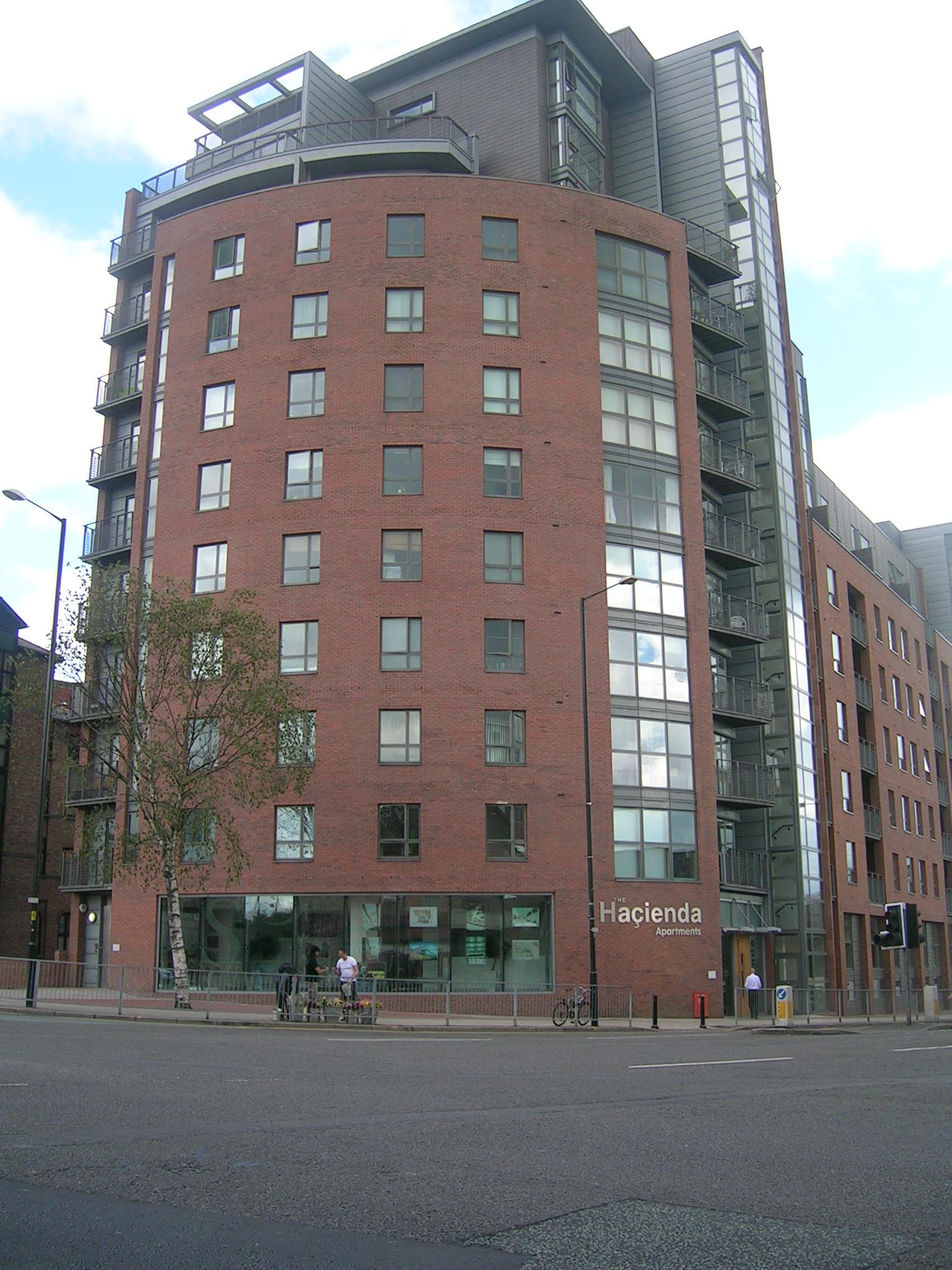 This picture was taken on Monday 13th August 2007, the guys outside the former club are laying flowers for the late Tony Wilson (1950-2007)